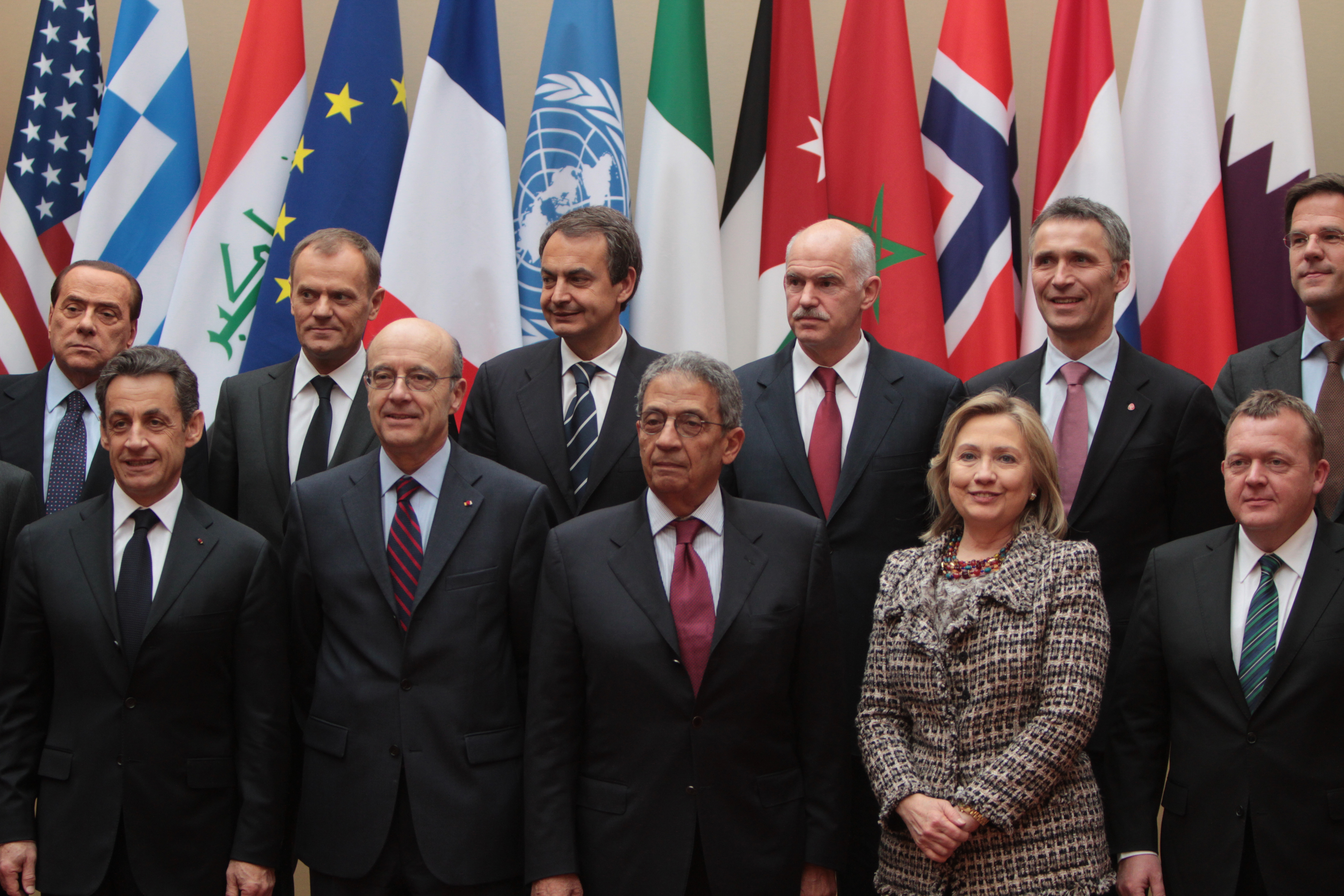 Paris Summit for the Support to the Libyan People, March 19, 2011.